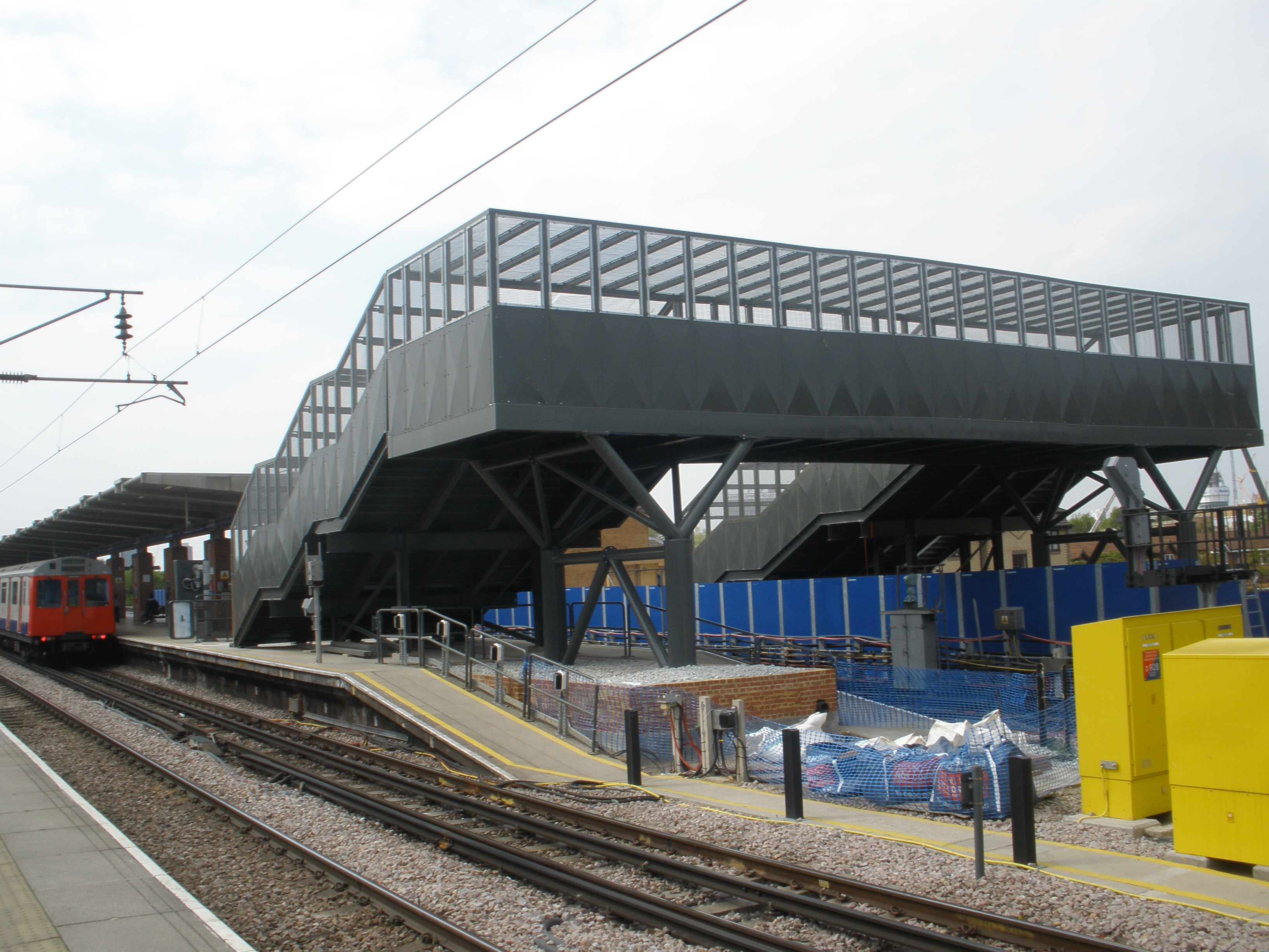 New footbridge at West Ham for the Olympic Exit